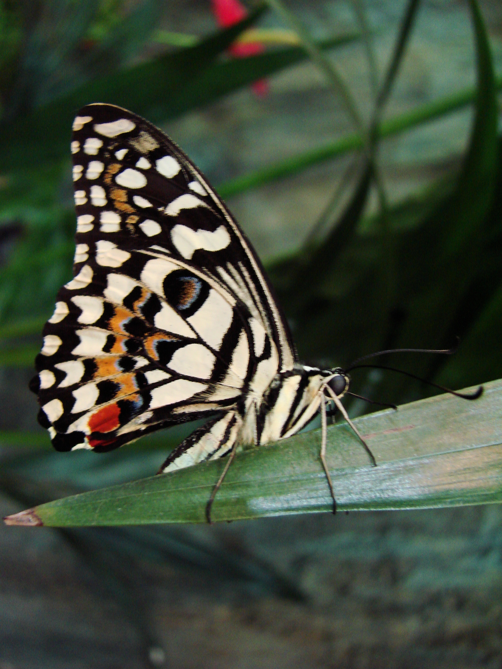 Picture taken in the zoo of Wrocław (Poland): Papilio demoleus